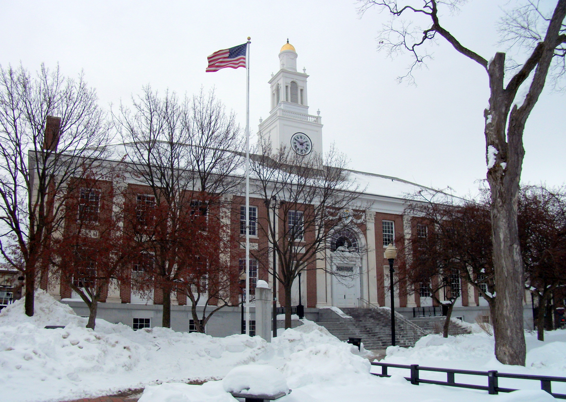 Burlington, Vermont City Halls